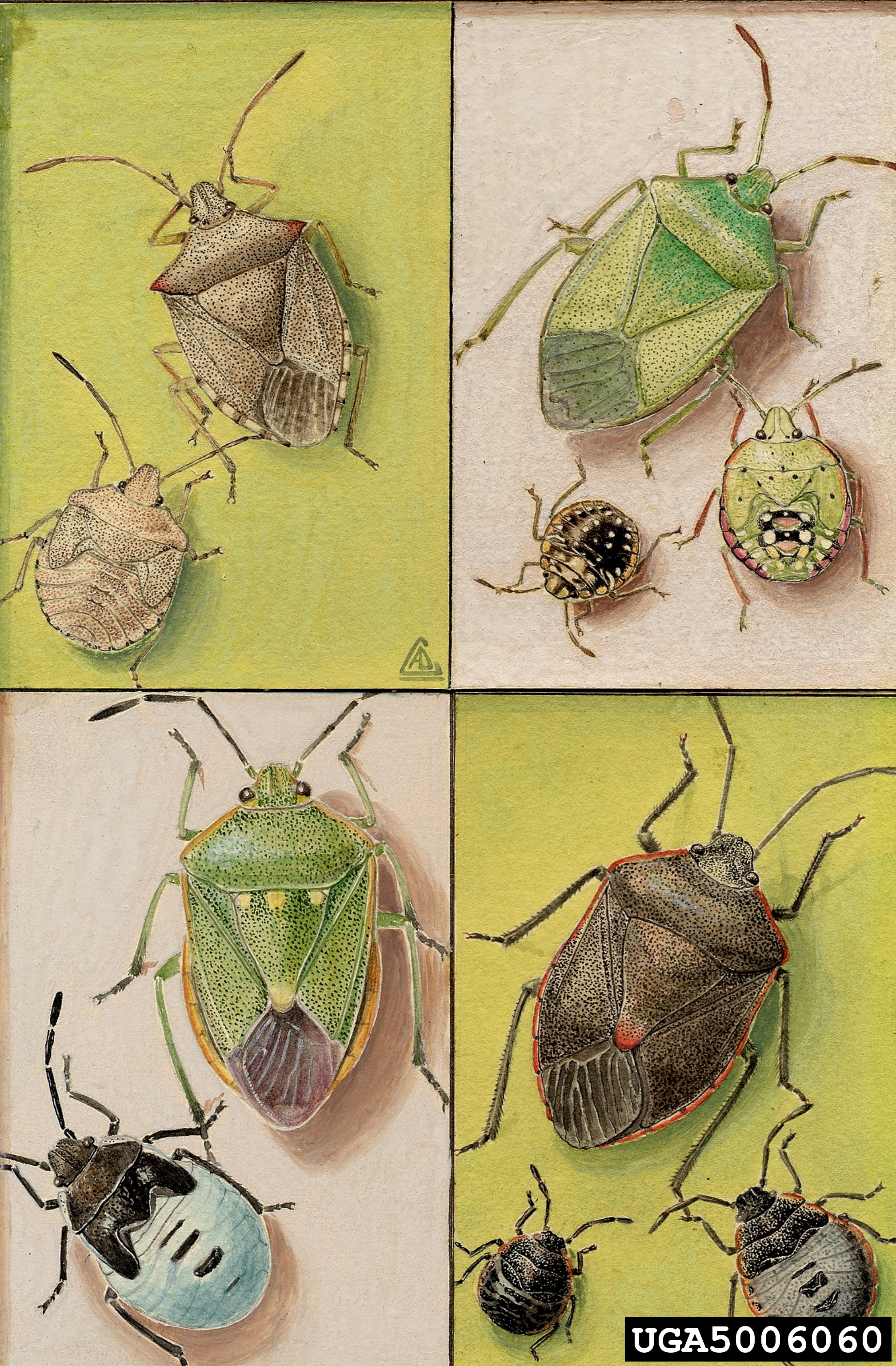 several examples of the family Pentatomidae